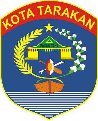 Coat of Arms of City Tarakan, East Kalimantan Province, on island Borneo/Kalimantan, Indonesia